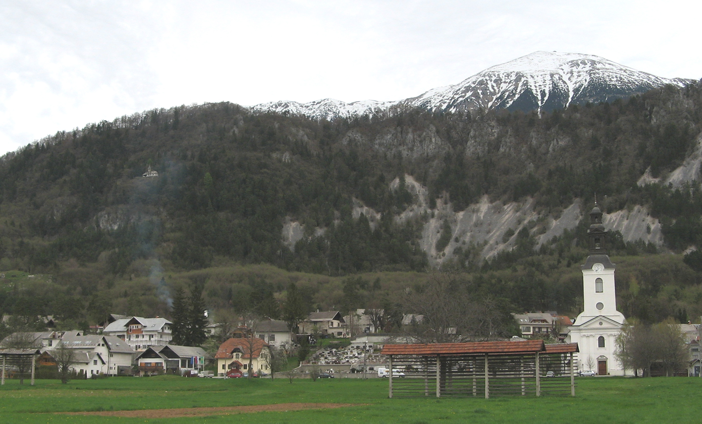 Breznica in the Upper Carniola region of Slovenia